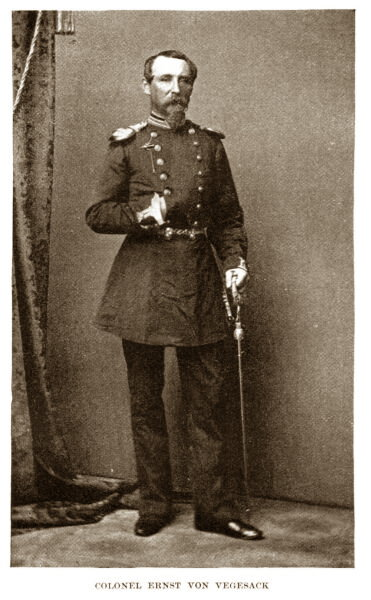 Swedish colonel Ernst Mattias Peter von Vegesack, volunteer in the American civil war, later active as politician in Sweden.